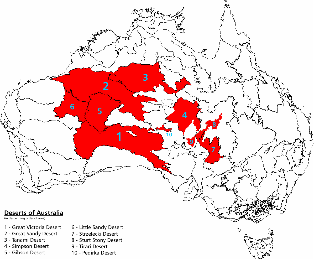 Map of Australia, with internal borders and Interim Biogeographic Regionalisation of Australia (IBRA) regions overlaid; deserts highlighted, w/legend; also (